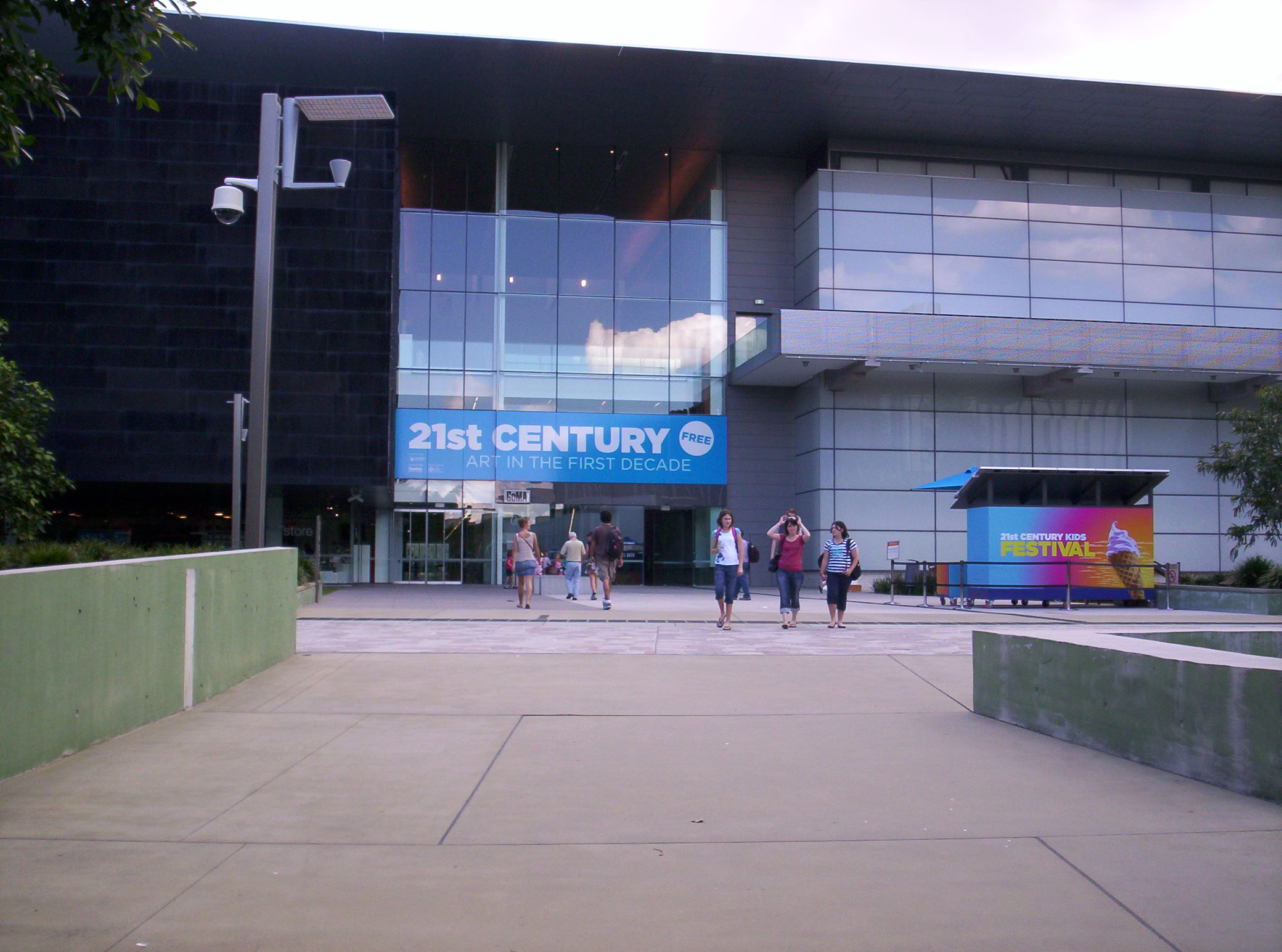 The entrance to the Gallery of Modern Art, in Brisbane, Queensland, Australia, during the exhibition "21st Century: Art in the First Decade"